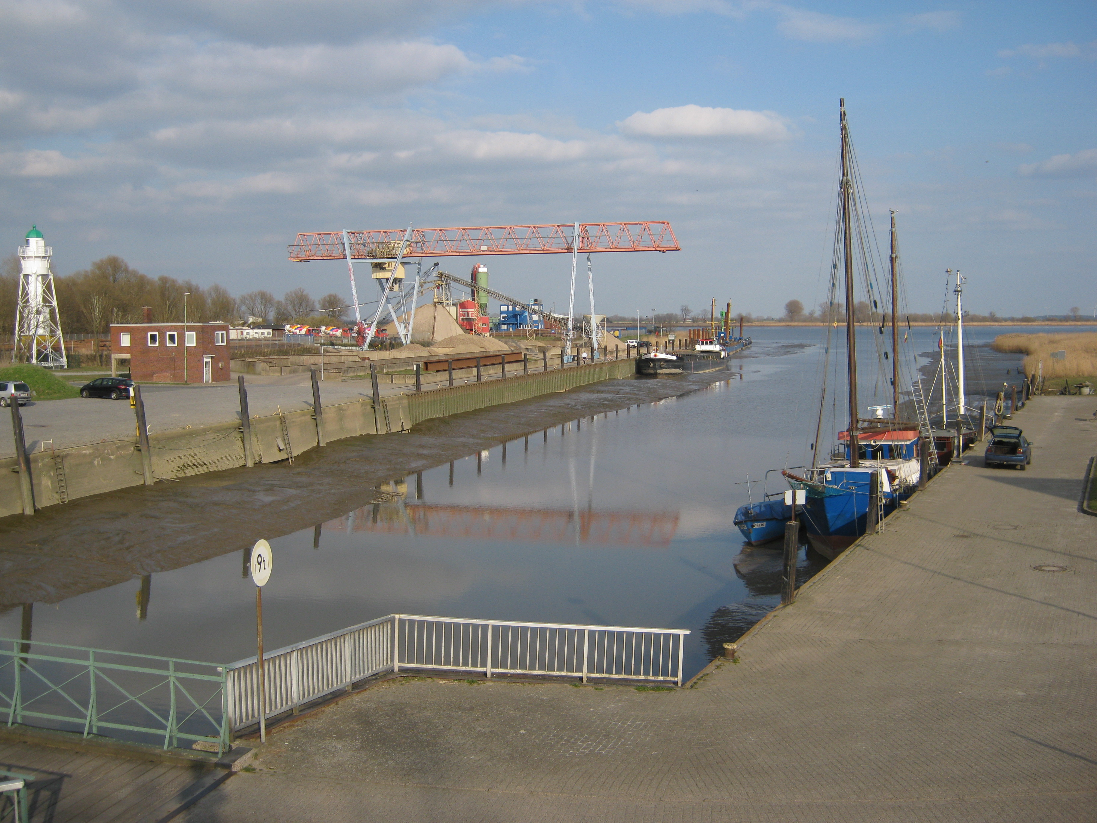 Hafen Großensiel Niedrigwasser